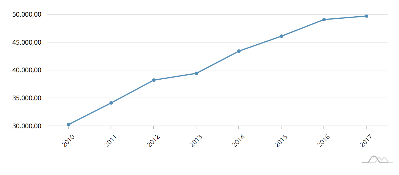 This graph shows the GDP of Porto Alegre overtime